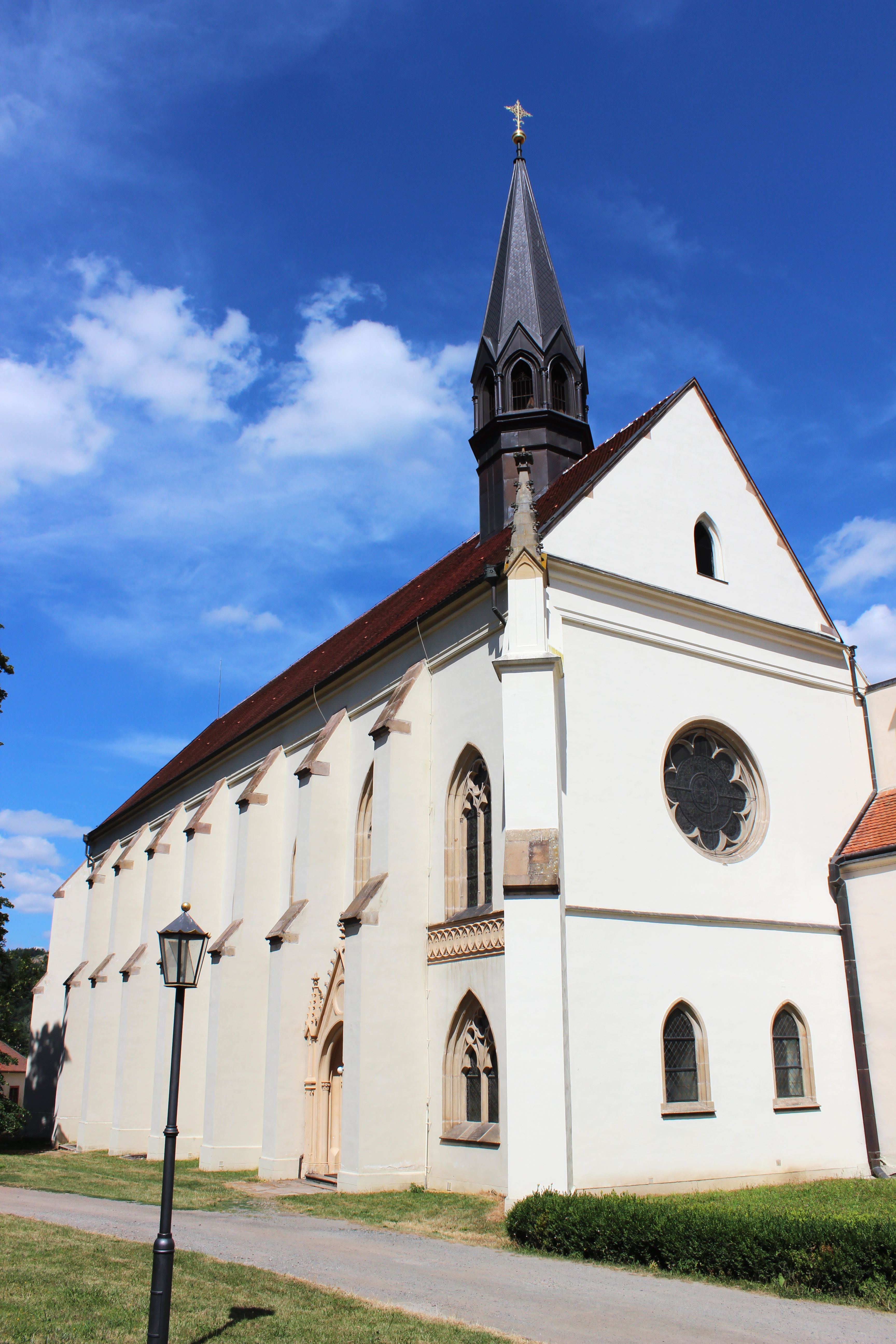 Gothic revival Church of the Assumption of the Virgin Mary, Předklášteří, Brno-Country District, Czech Republic - Google Maps - Google Earth This photograph was taken with a DSLR from WMCZ's Camera grant.